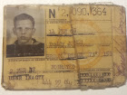 Image of Buddy Jones' military service authorization card.